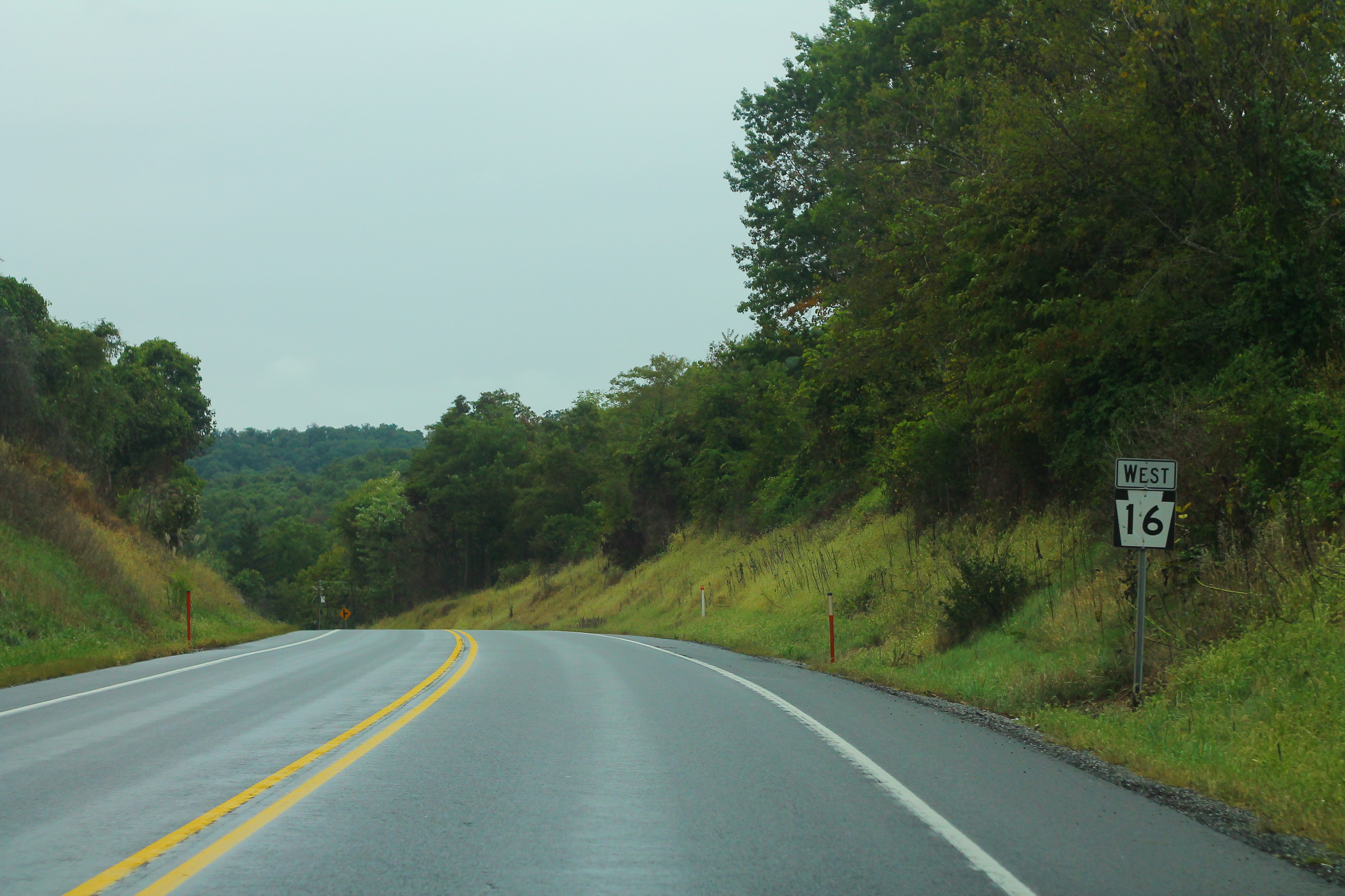 PA16wRoadSignCurve